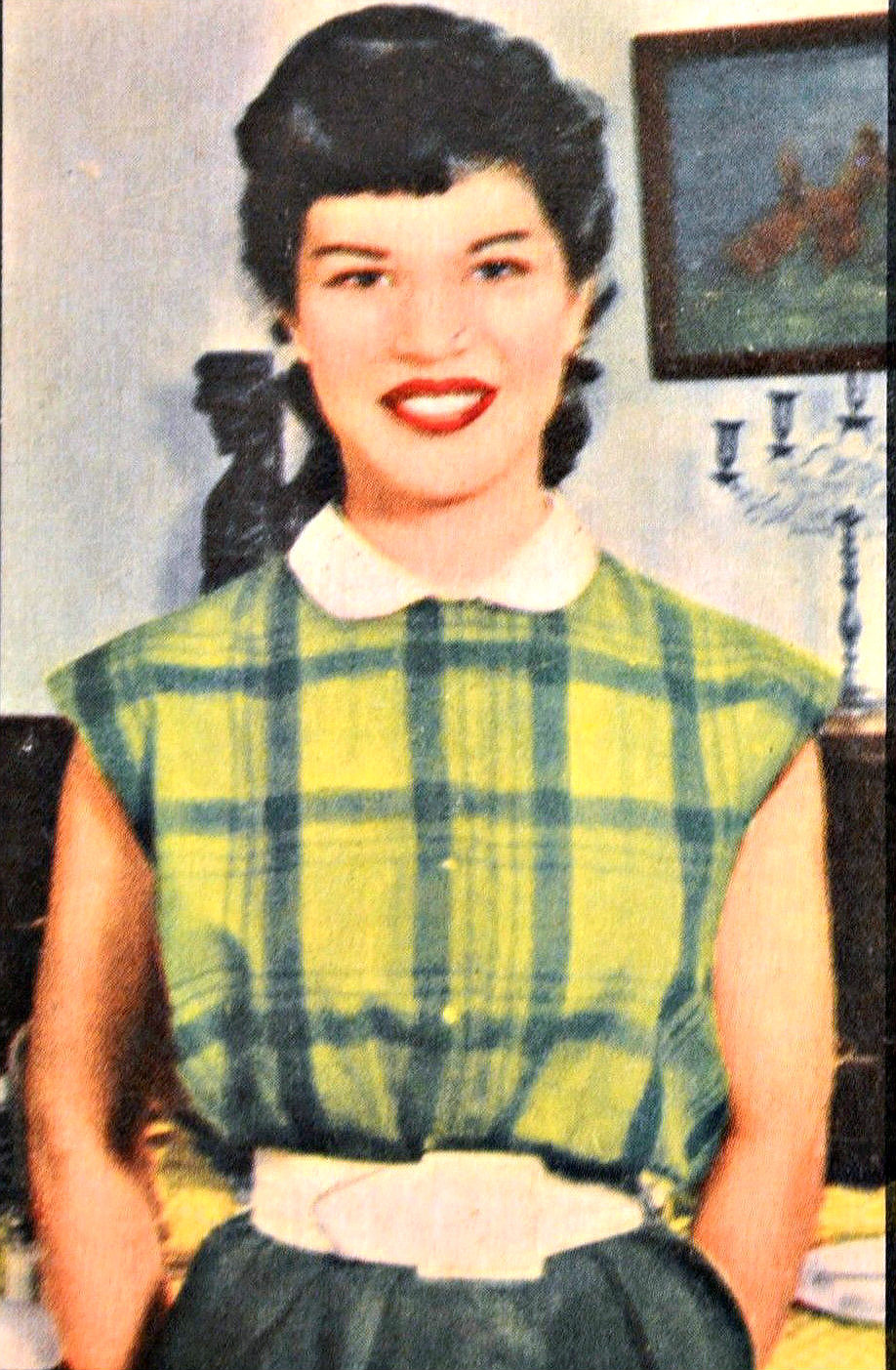 Photo of Arlene McQuade as she appeared as Rosalie Goldberg on the television program The Goldbergs when the program moved from CBS-TV to NBC-TV. In 1954, the program moved from NBC to the DuMont Network, which went bankrupt in the same year, which ended the program. See File:Eli Mintz 1953.jpg for another card from this series and from The Goldbergs television series. Eli Mintz played Uncle David on the show. A check of renewals for Bowman Gum brought only information regarding the original copyrights for the company's newer sports cards. No cards issued by Bowman before 1964 were renewed--entertainment or sports varieties.